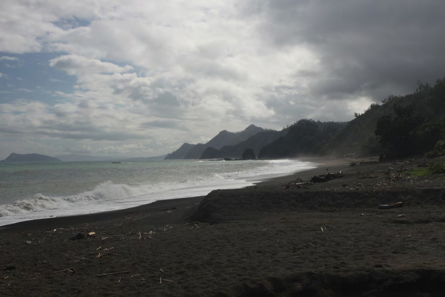 View of the forested west coast of Isabela Province (Dinapique). Photo: MVW.